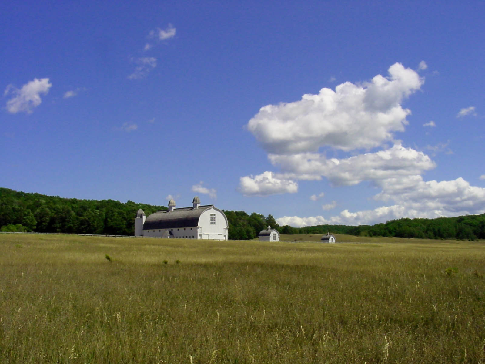 Once a heavily farmed area, the Sleeping Bear Dunes National Lakeshore, now features many abandoned farms such as this in Glen Arbor, MI.